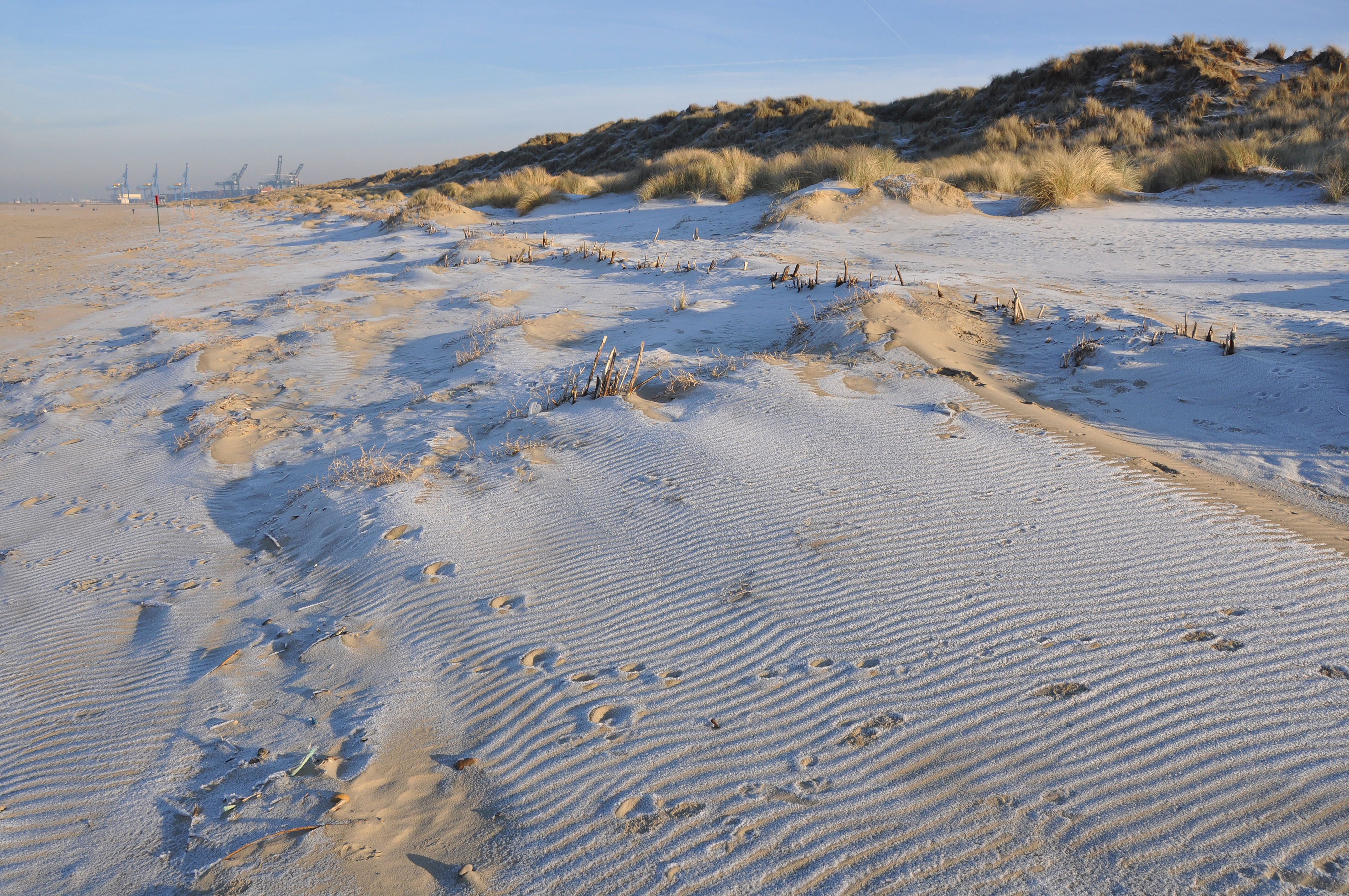 Hoar frost on the beach of Zeebrugge (Belgium)